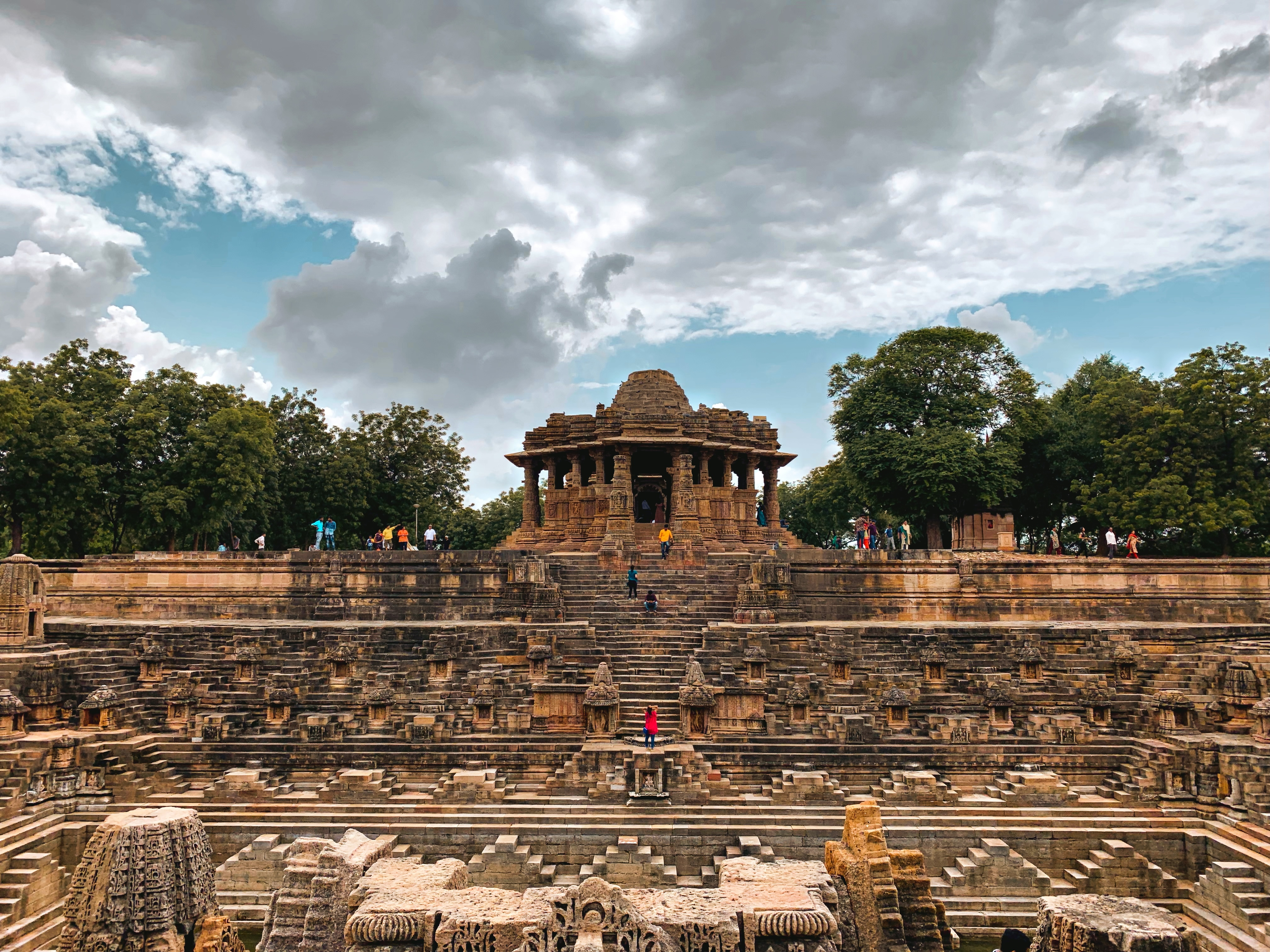 Modhera Sun Temple is hailed as the most fascinating of all the Sun temples in India. As suggested by its name, it is dedicated to the Sun God, a much revered God in Hinduism. While prayers are no longer offered in the temple, it serves as a major pitstop for its religious as well as architectural significance. It was built by King Bhimdev of the Solanki dynasty in 1026 AD following a rather unique architectural pattern consisting of three main structures - Surya Kund, Sabha Mandap and Guda Mandap or the sanctum sanctorum. A cluster of 108 shrines in Surya Kund is a major highlight of this temple. It once houses an idol of the Sun that was made out of gold and placed on a 15 ft deep pit, filled with gold coins. The temple lost much of its splendour and wealth, including the gold statue, when it was plundered by Mahmud Gazni during one of his repeated invasions of India. It lies at some 102 km from Ahmedabad and stands by the banks of River Pushpavati.